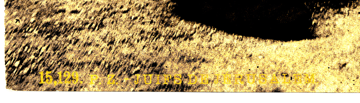 15,129 P. Z. - JUIFS DE JERUSALEM, "Jews from Jerusalem", electronically inforced detail of the impression in French language on the photochrom of the company Photochrom Zürich (P. Z.) ...